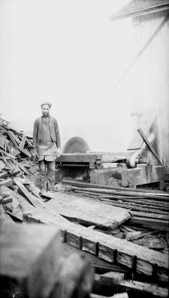 PH Coll 1373.27 Arthur B. Pracna was an architect who specialized in lumber and shingle mills in the Pacific Northwest during the early twentieth century. He was born in Minnesota in 1878 and began his buisness in Everett, Washington in 1902. He continued to work and live in the Seattle area until his death in 1948. He also designed and patented a swivel band-saw guide for use in these mills. Subjects (LCSH): Sikhs; Sawmills--Equipment and supplies